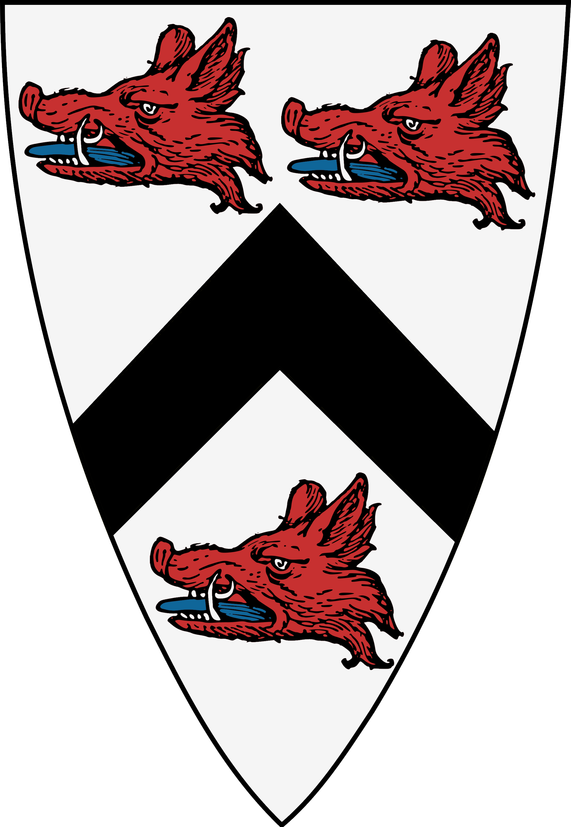 Arms of the Right Honourable Alexander Mountstuart, Lord and Baron Elphinstone. Only the plain arms are shown; the numerous quarterings acquired by the family have been excluded. Blazon: argent, a chevron sable between three boars' heads gules langued azure and armed of the field.